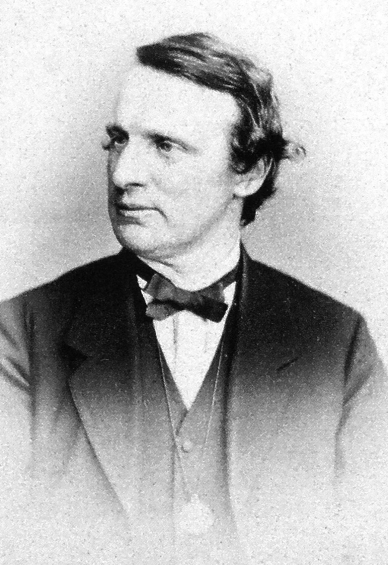 Photograph of Edward Paley